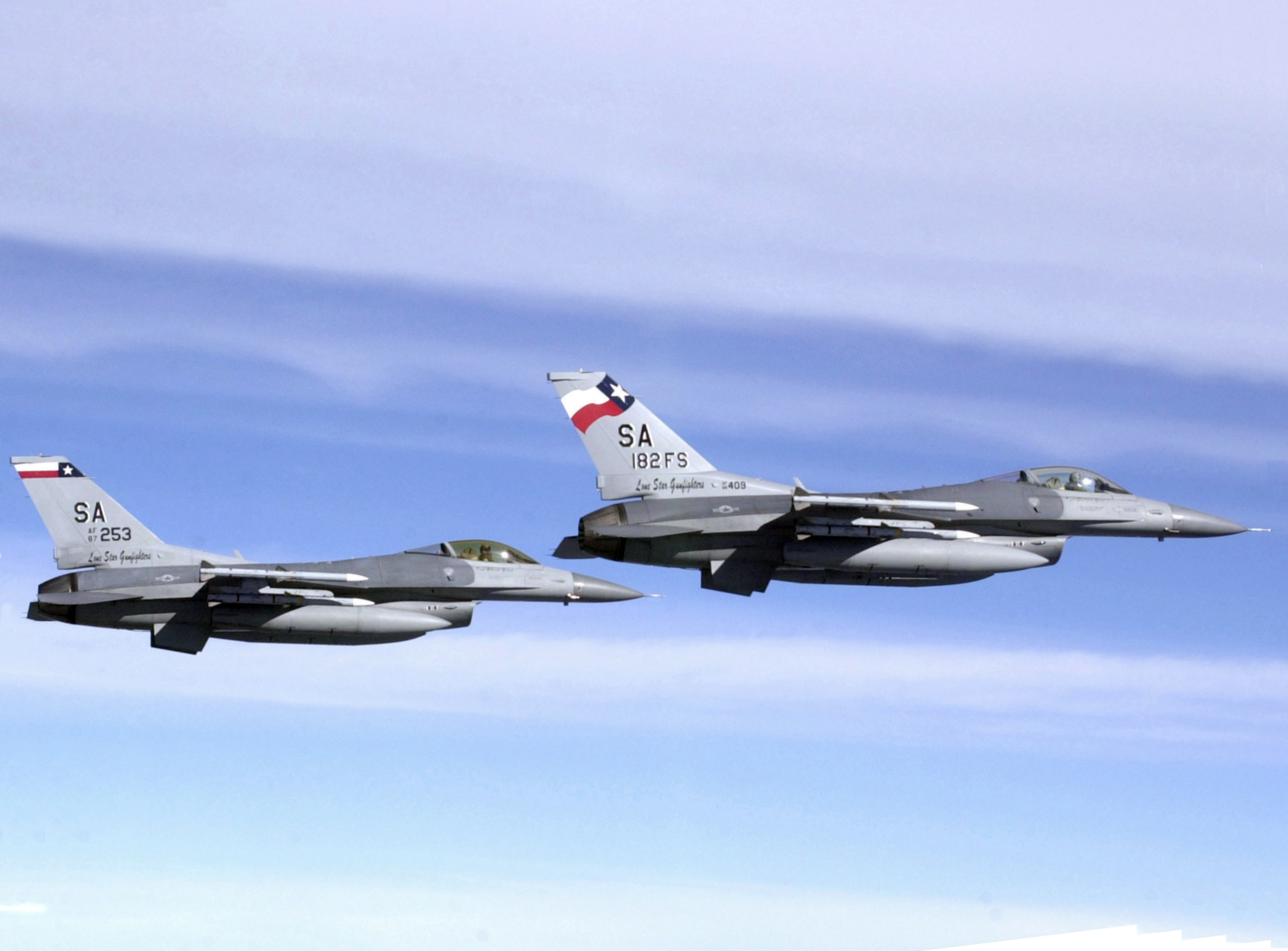 Two U.S. Air Force General Dynamics F-16C Block 25F/30F Fighting Falcon fighters (s/n 85-1403, 87-0253) from the 182d Fighter Squadron, 149th Fighter Wing, Texas Air National Guard, in flight during a mission during operation "Enduring Freedom" on 15 February 2002.